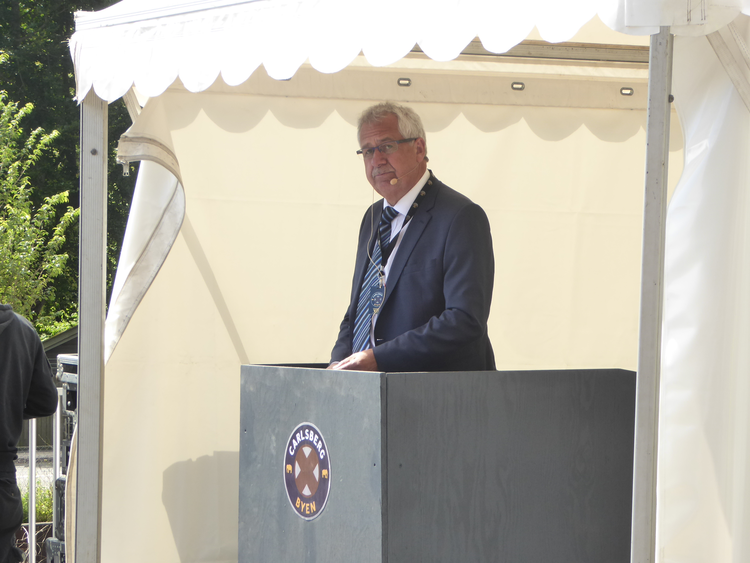 The opening of the S-train station Carlsberg Station in Copenhagen. The Danish minister of transport and buildings Hans Christian Schmidt is speaking.